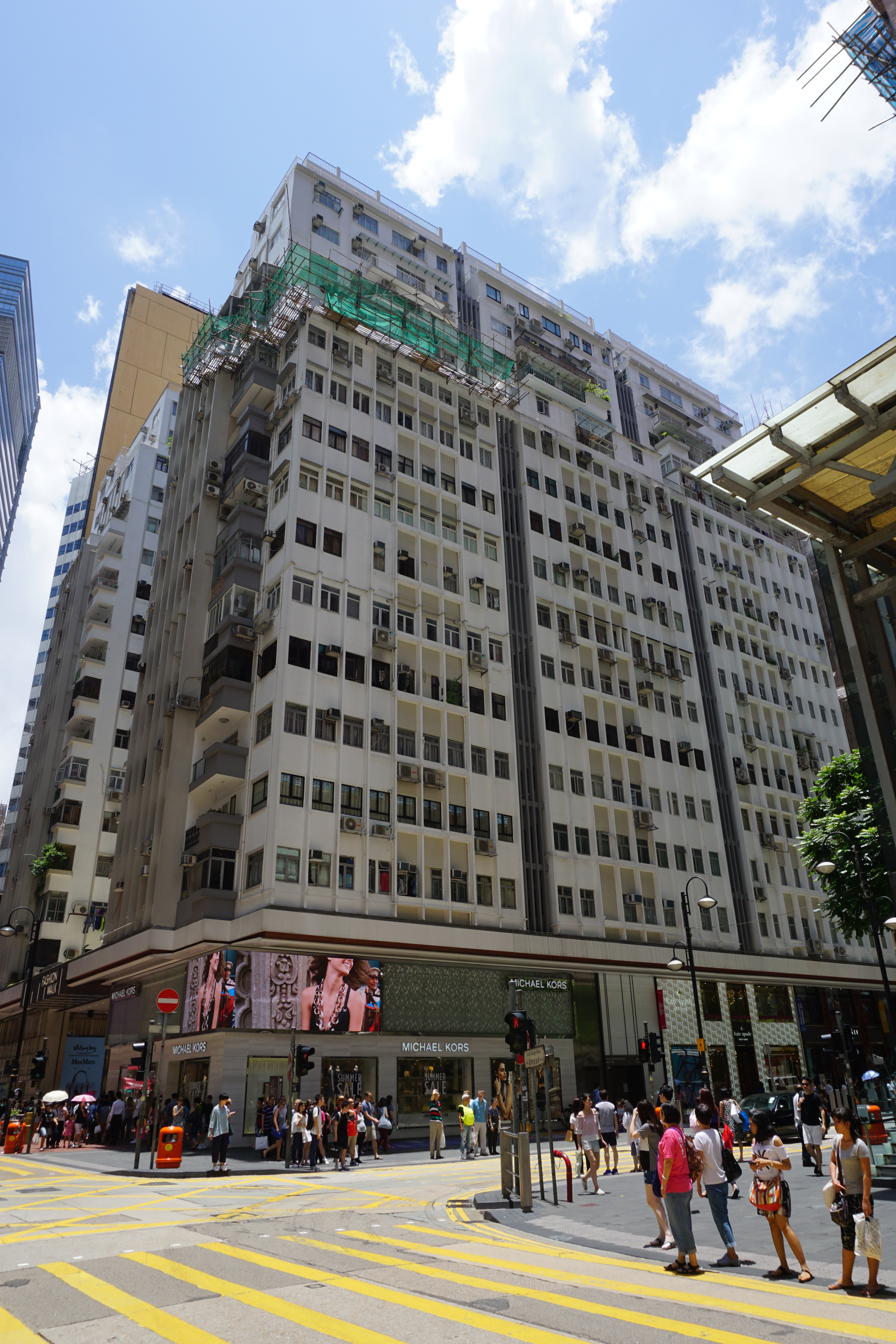 Great George Building in Causeway Bay, Hong Kong.